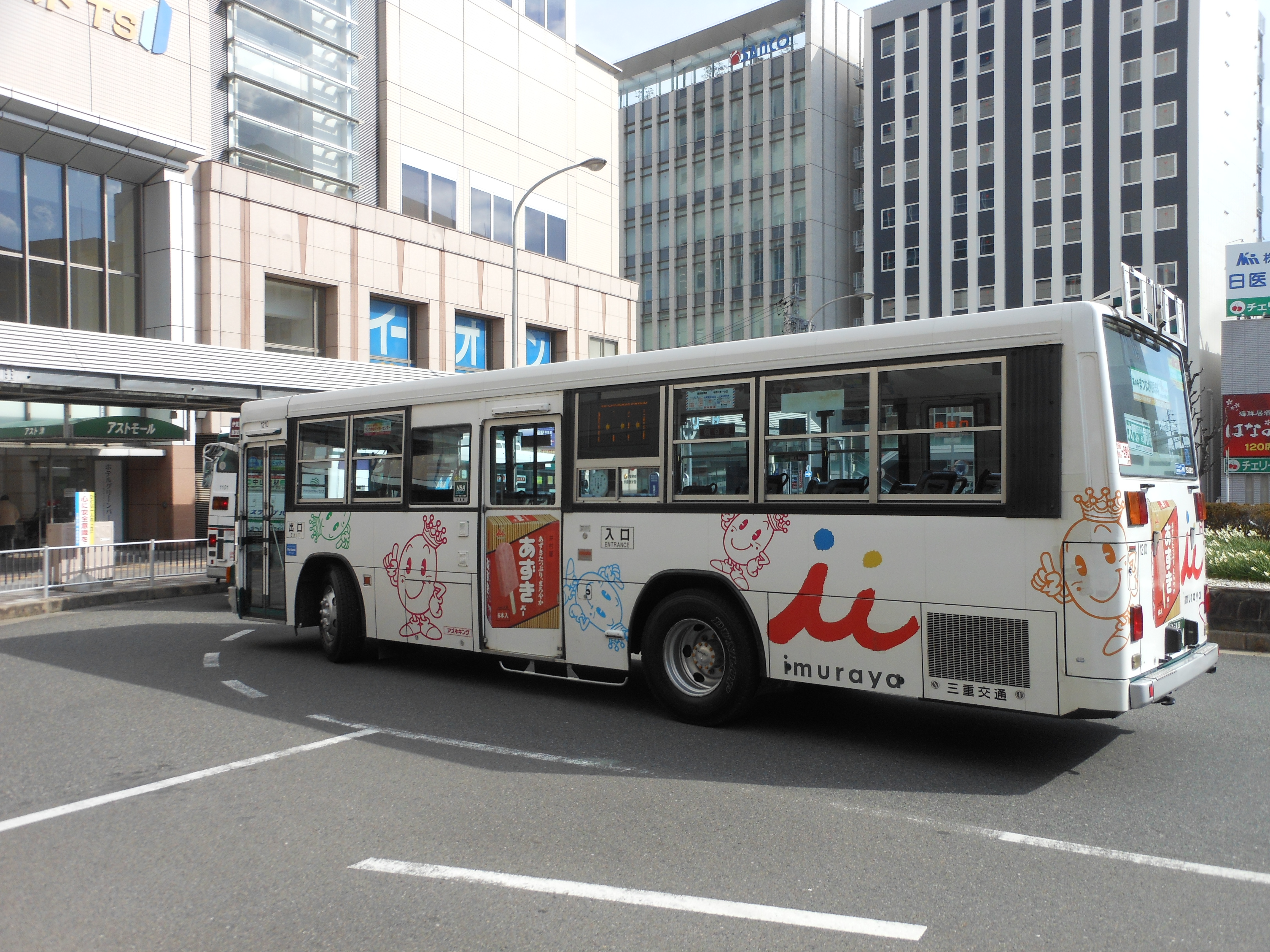 This bus has an advertisement of Imuraya group. I took this at Tsu station east exit, Tsu, Mie, Japan.